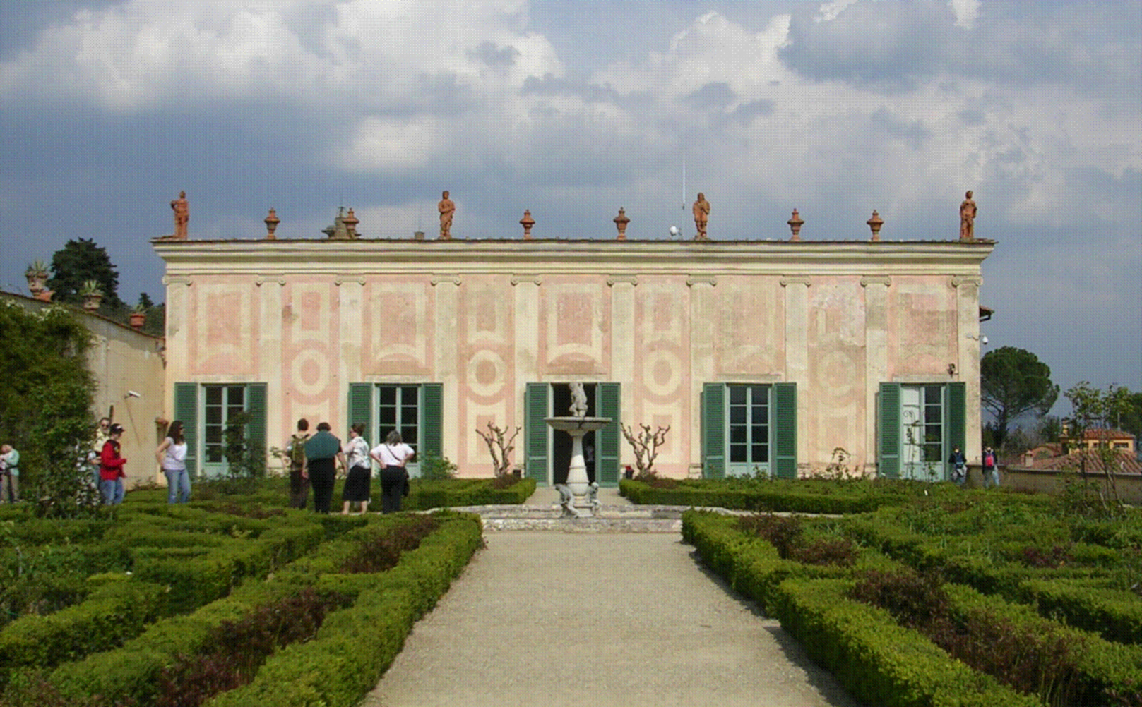 Garden Folly in the Boboli Gardens, Florence. Now the Pitti Palace porcelaine Museum. Photographed by Giano who releases all rights into the public domain